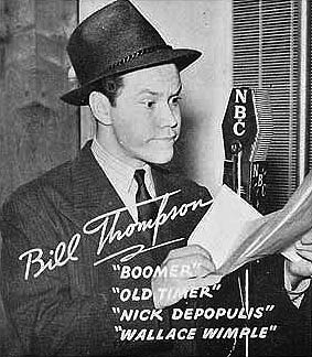 Photo of Bill Thompson from the radio show Fibber McGee and Molly. Thompson played multiple characters on the radio program. No copyright marks are seen on the photo. From the list of supporting cast and their photos, this appears to be circa 1939. Some characters shown on it were introduced in that year, while others who were introduced later in the run of the program are not pictured in the cast photo. The radio program aired from 1935 to 1959. The dating makes the item well within the pre-1978 timeframe.